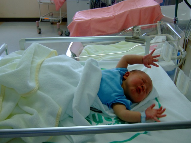 Moro reflex